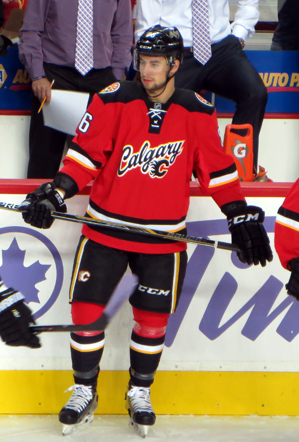 Calgary Flames forward Josh Jooris prior to a National Hockey League game against Tampa Bay.